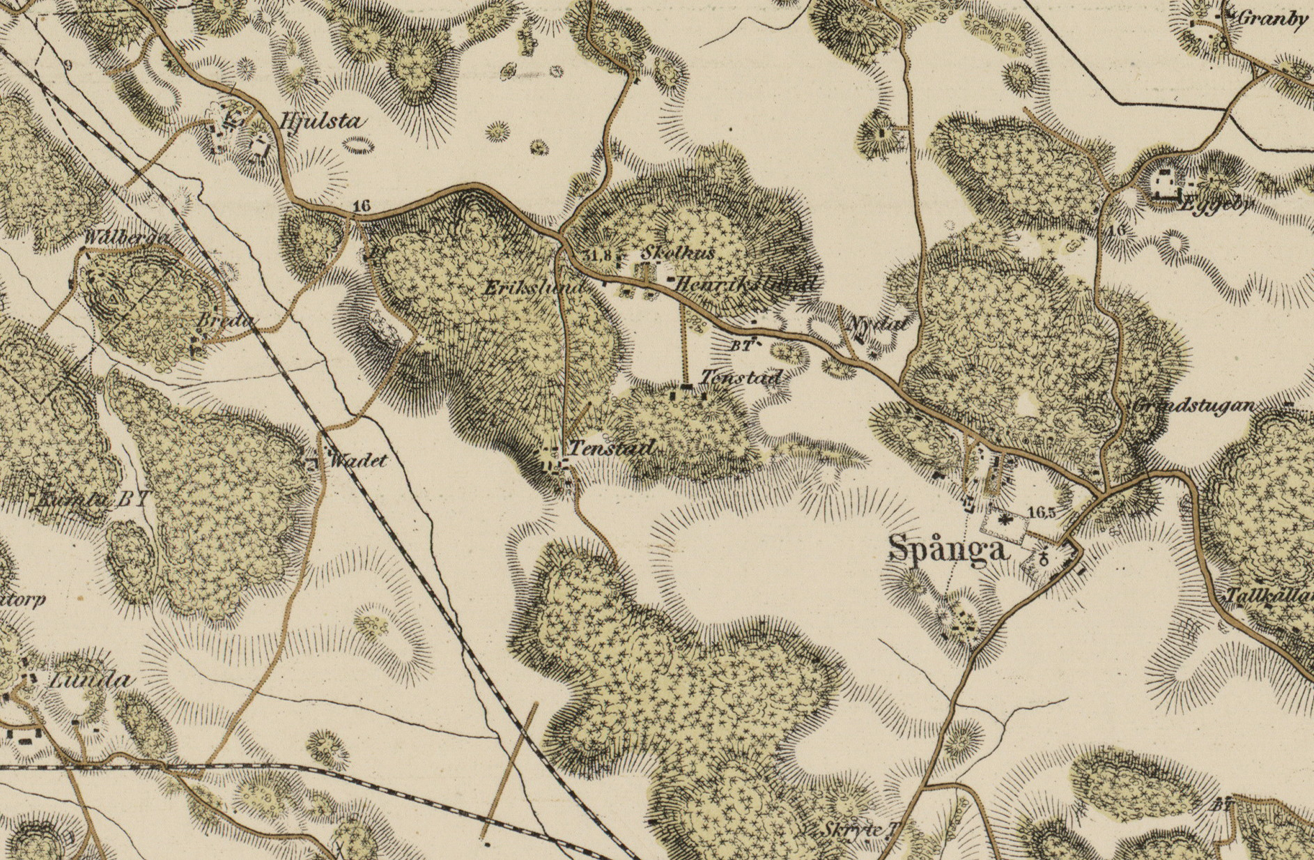 KARTA: Trakten omkring Stockholm i IX blad. Blad I : Nordvestra bladet / Utgifven af Topografiska Corpsen 1861Blad I visar bl.a. Spånga, Järfälla och Sollentuna . Uppmätt 1844. Öfversedt 1892. Del visande Spånga, Tensta, Rinkeby mm